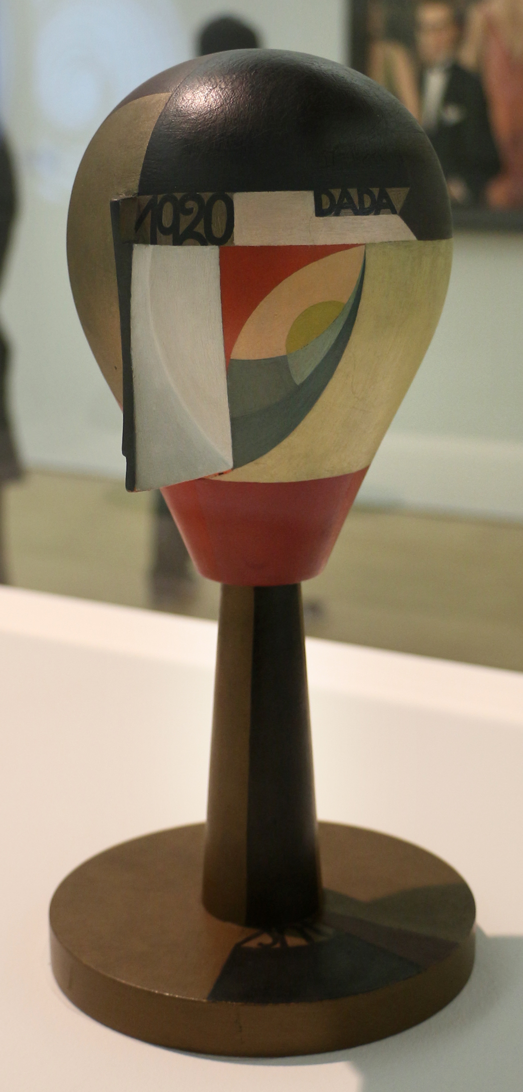 Sculptures in the Musée national d'art moderne